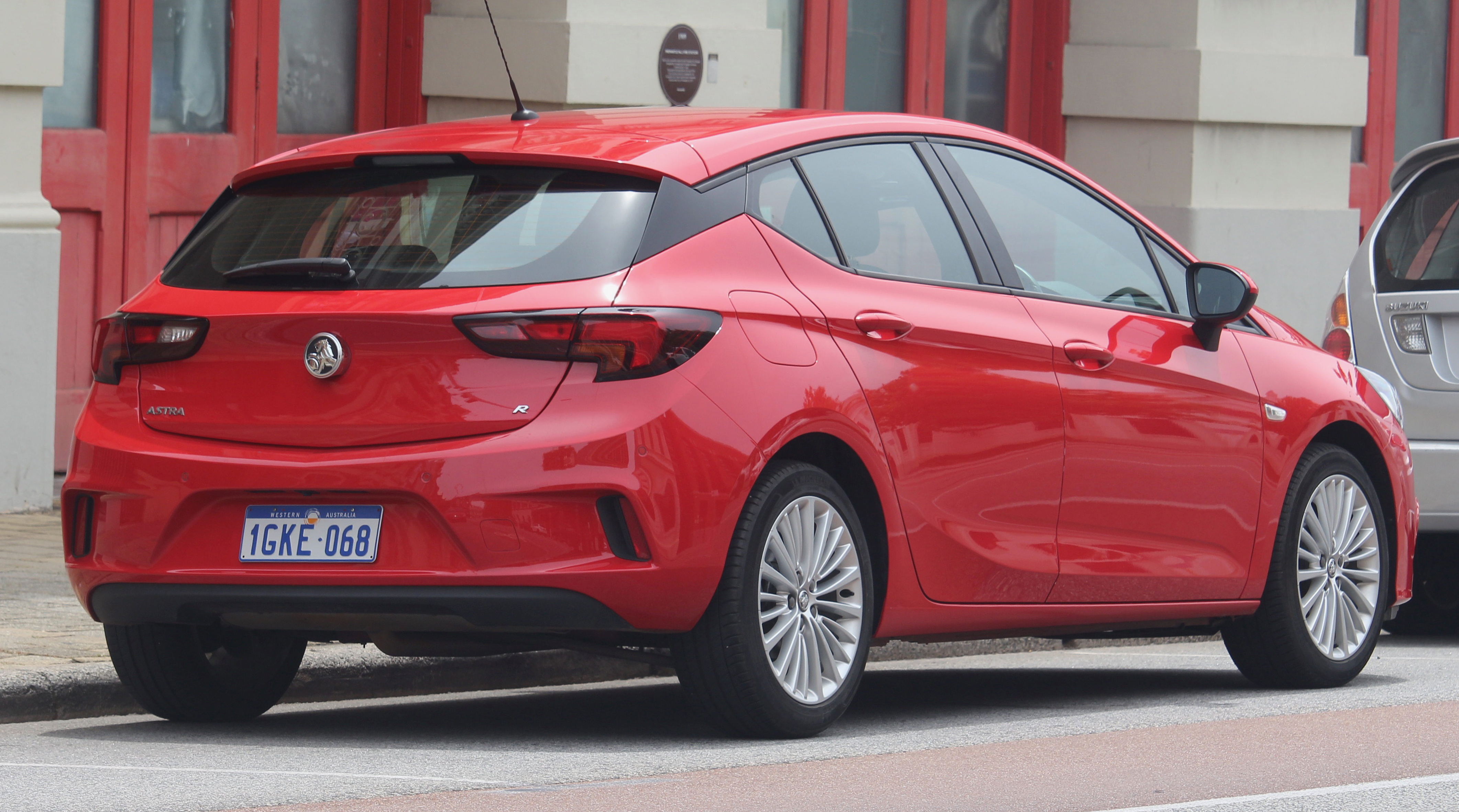 2017 Holden Astra (BK) R hatchback. Photographed in Fremantle, Western Australia, Australia.